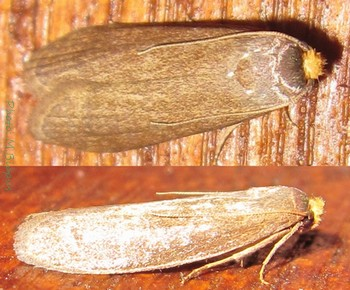 Achroia grisella moth, (Fabricius, 1794) length: approx. 12mm = wingspan approx. 22-24mm Galleriinae